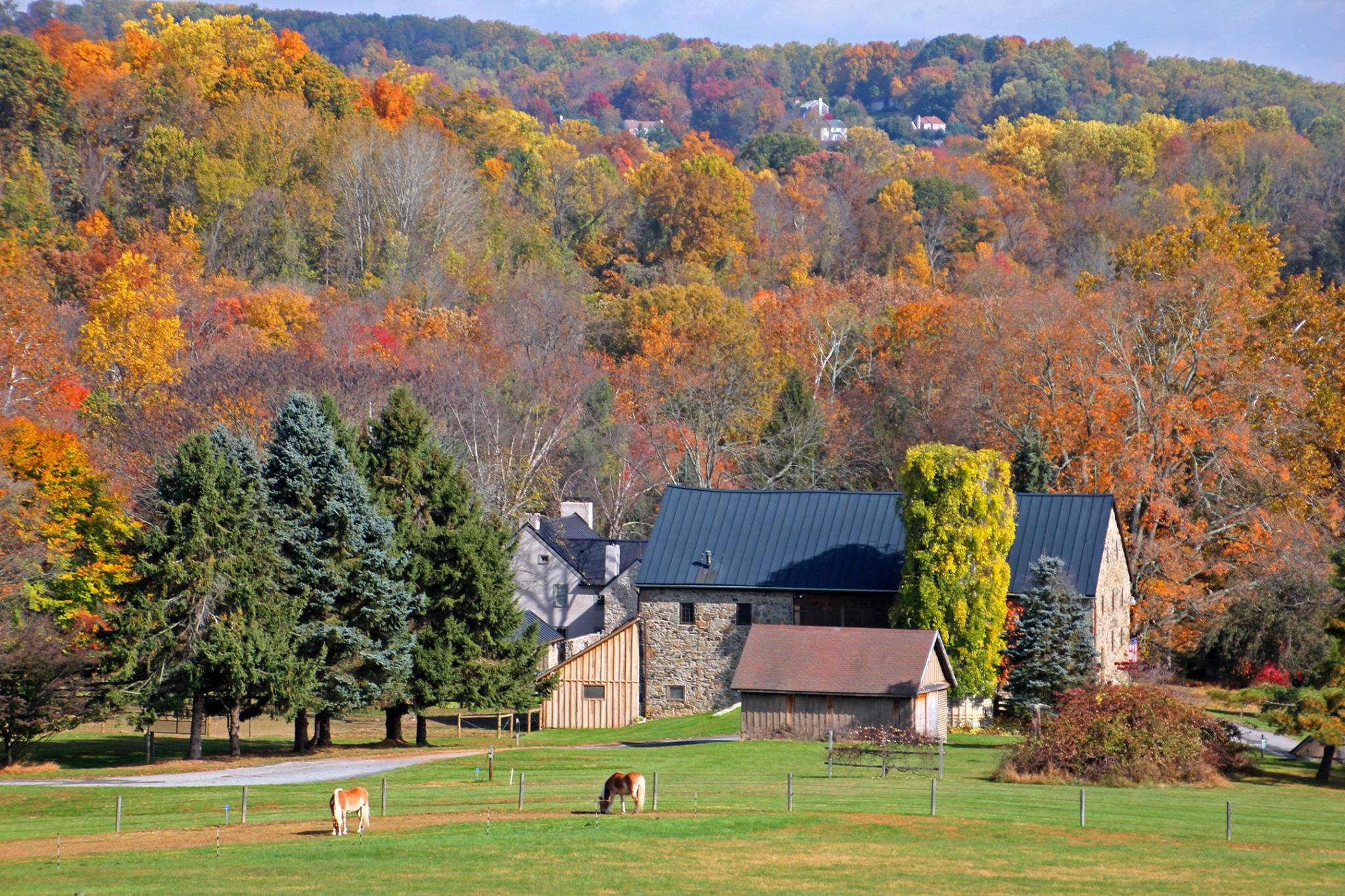 Fall colors in Upper Uwchan Township, Pennsylvania